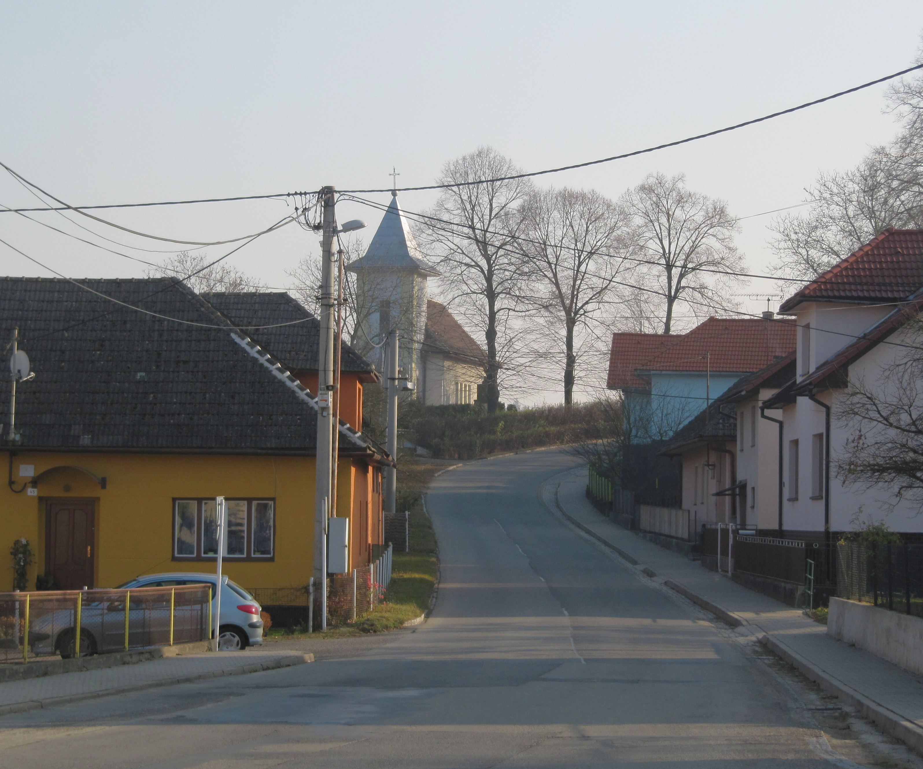 Lipová in Zlín District, Czech Republic. Chapel of St. Wenceslas.